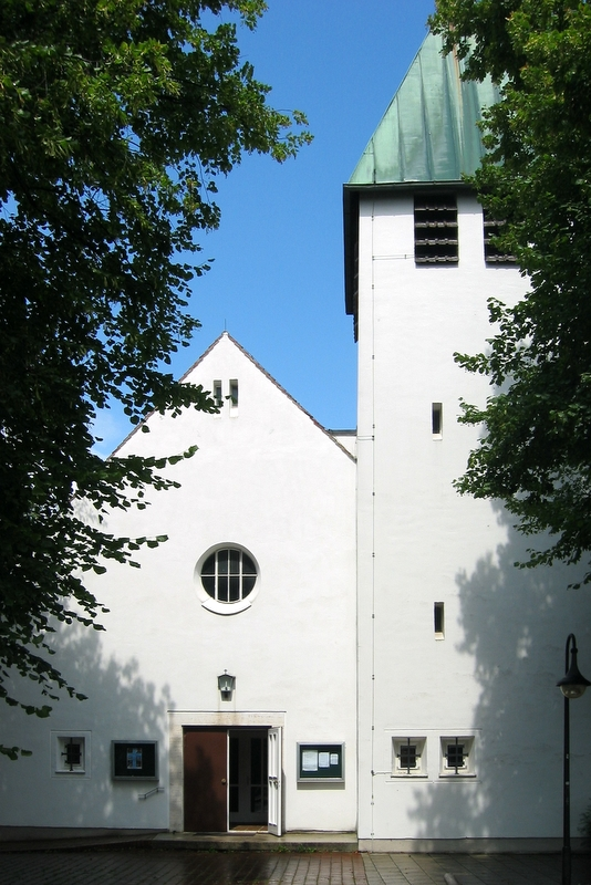 Germany, Bavaria, Gröbenzell: Zachäuskirche (church of Zacchaeus the Tax Collector)